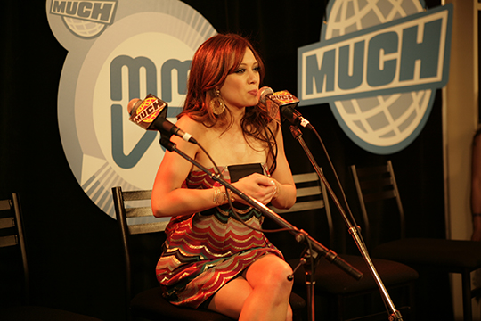 Hilary Duff was an attendee at the 2007 MuchMusic Video Awards, held the night of Sunday, June 17, 2007 in Toronto, Ontario, Canada.